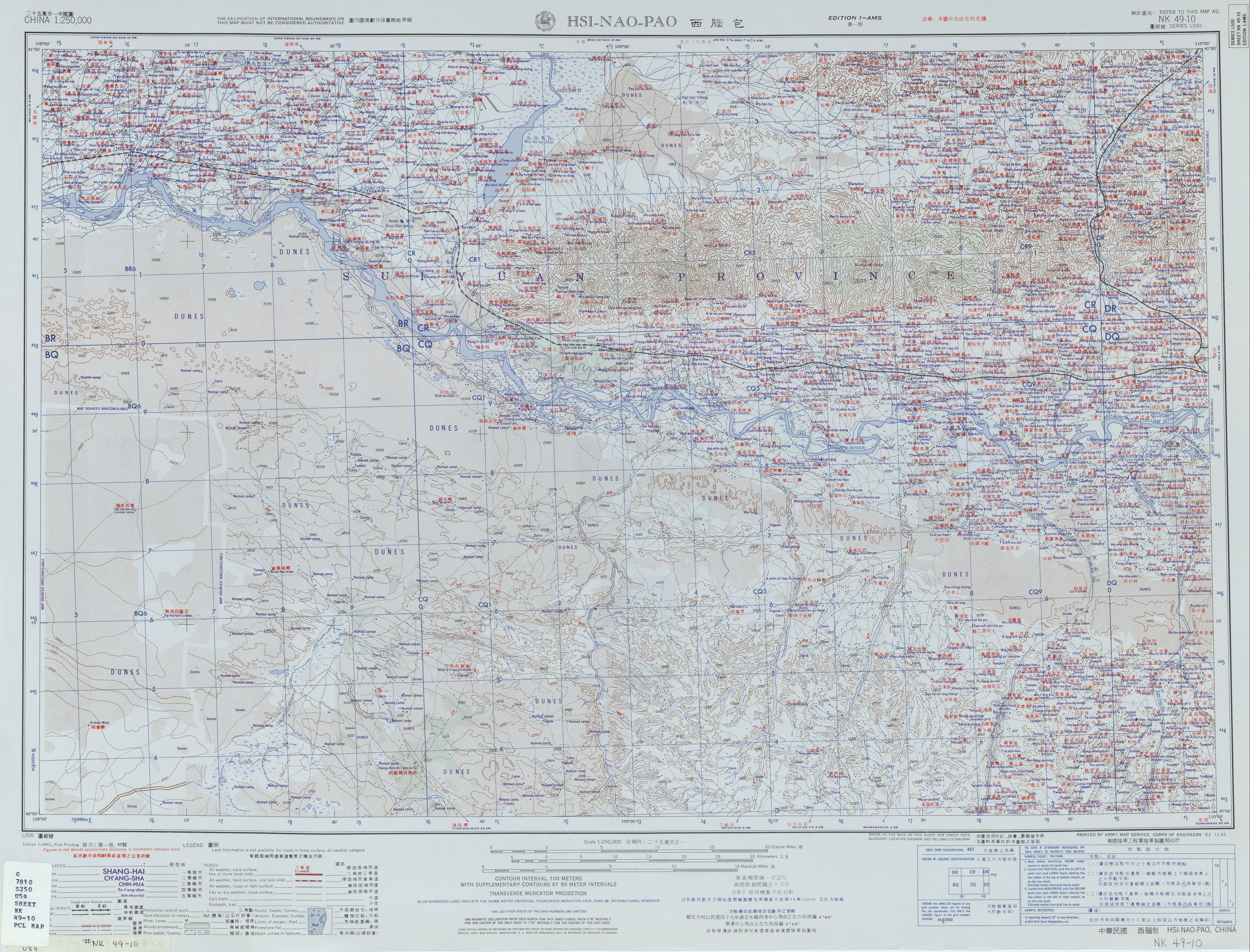 China AMS Topographic Maps